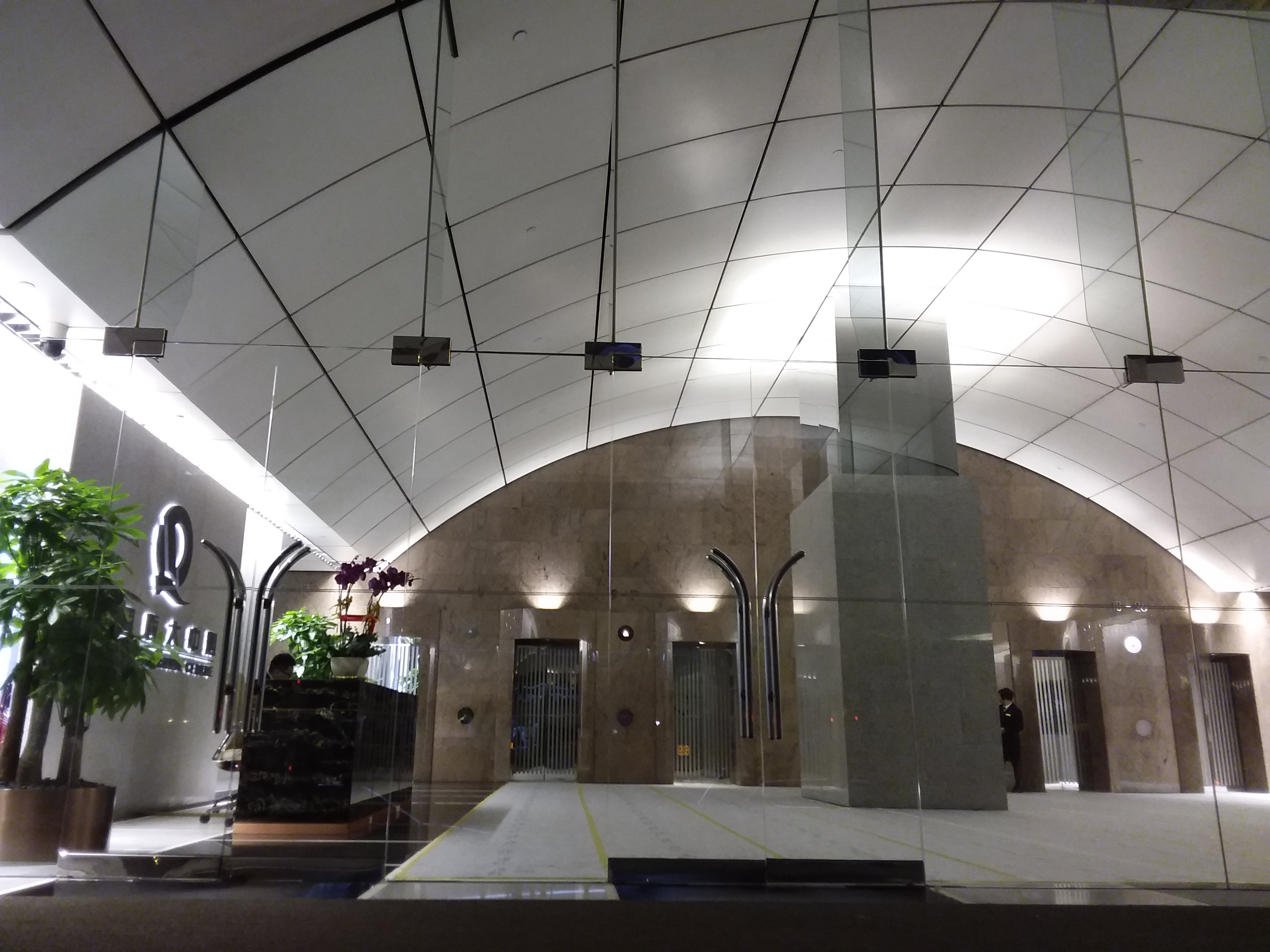 HK Wan Chai 軍器廠街 Arsenal Street in Oct 2018 night